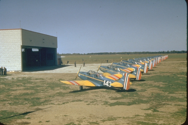 Cornells lined up, Little Norway, Muskoka, Canada